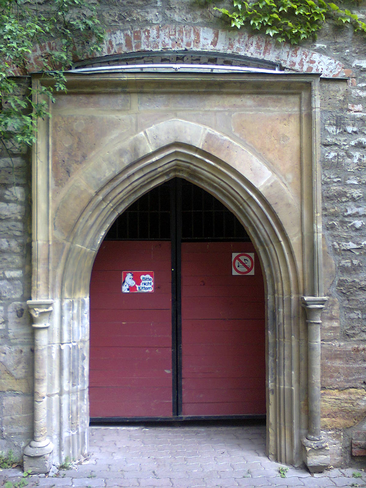 Portal of the old Thomas church of Erfurt, today at a barn of the Axmann farm in the zoo of Erfurt